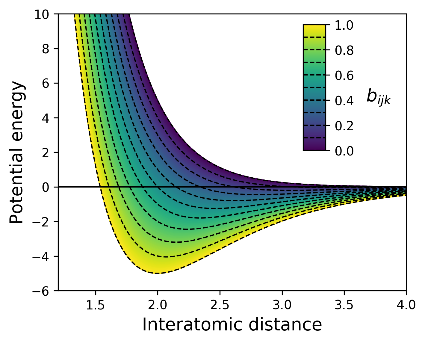 The figure illustrates how the value of the bond order in a Tersoff-type interatomic potential shifts the potential energy minimum. The bond order is a function of the atomic environment (i.e. number of neighbors, bond angles, etc.).